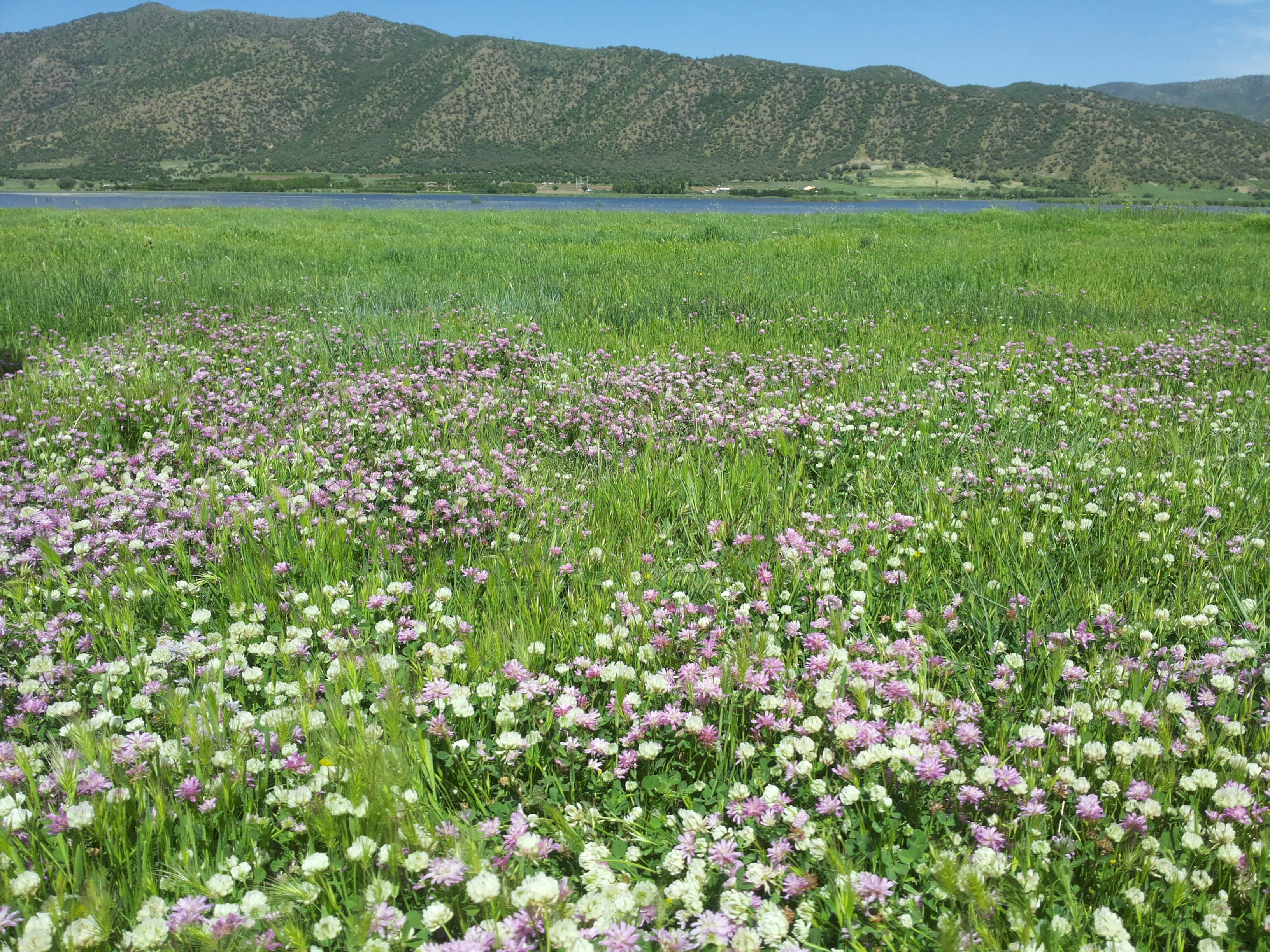 Colorful clovers beside Zrebar lake